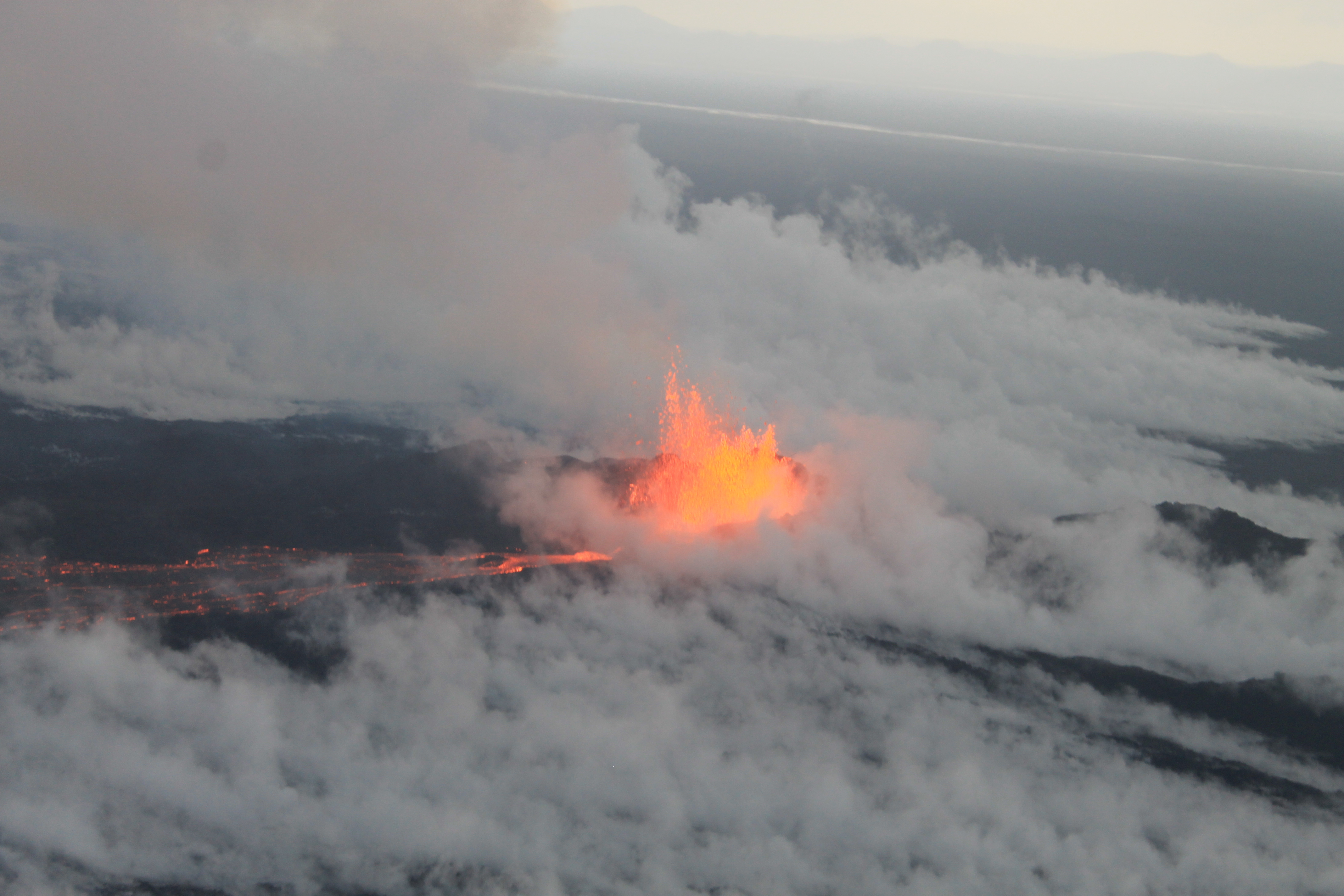 Pictures taken by Peter Hartree between 14.30 and 15.00 on September 4th 2014. I'm sorry for the less than ideal quality of these - this wasn't a professional photo shoot. All photos are unedited. I have a bunch more (fairly similar) shots - if you'd like to see them, write to . Many thanks to pilot Siggi G for the ride.